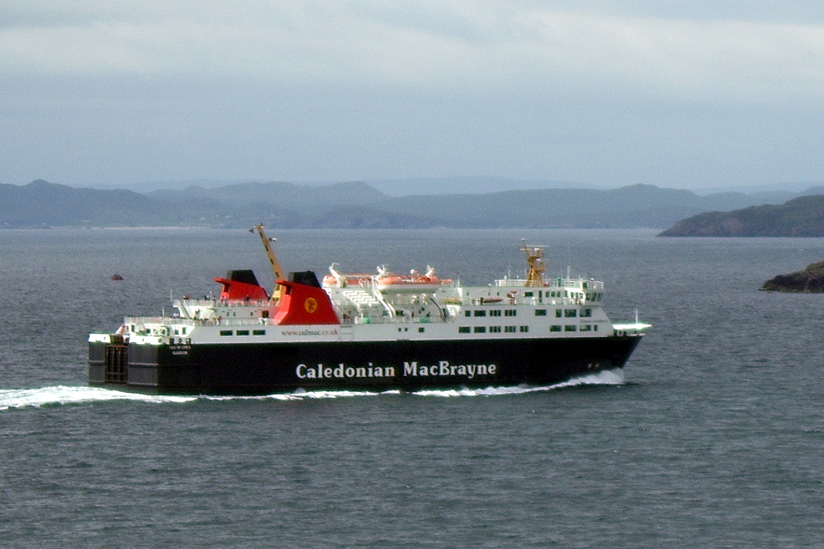 The Caledonian MacBrayne ferry MV Isle of Lewis passing the Summer Isles on its way to Stornoway on the Isle of Lewis. IMO Number: 9085974 MMSI Number: 232002521 Callsign: MVNP4 Length: 101 m Beam: 18 m